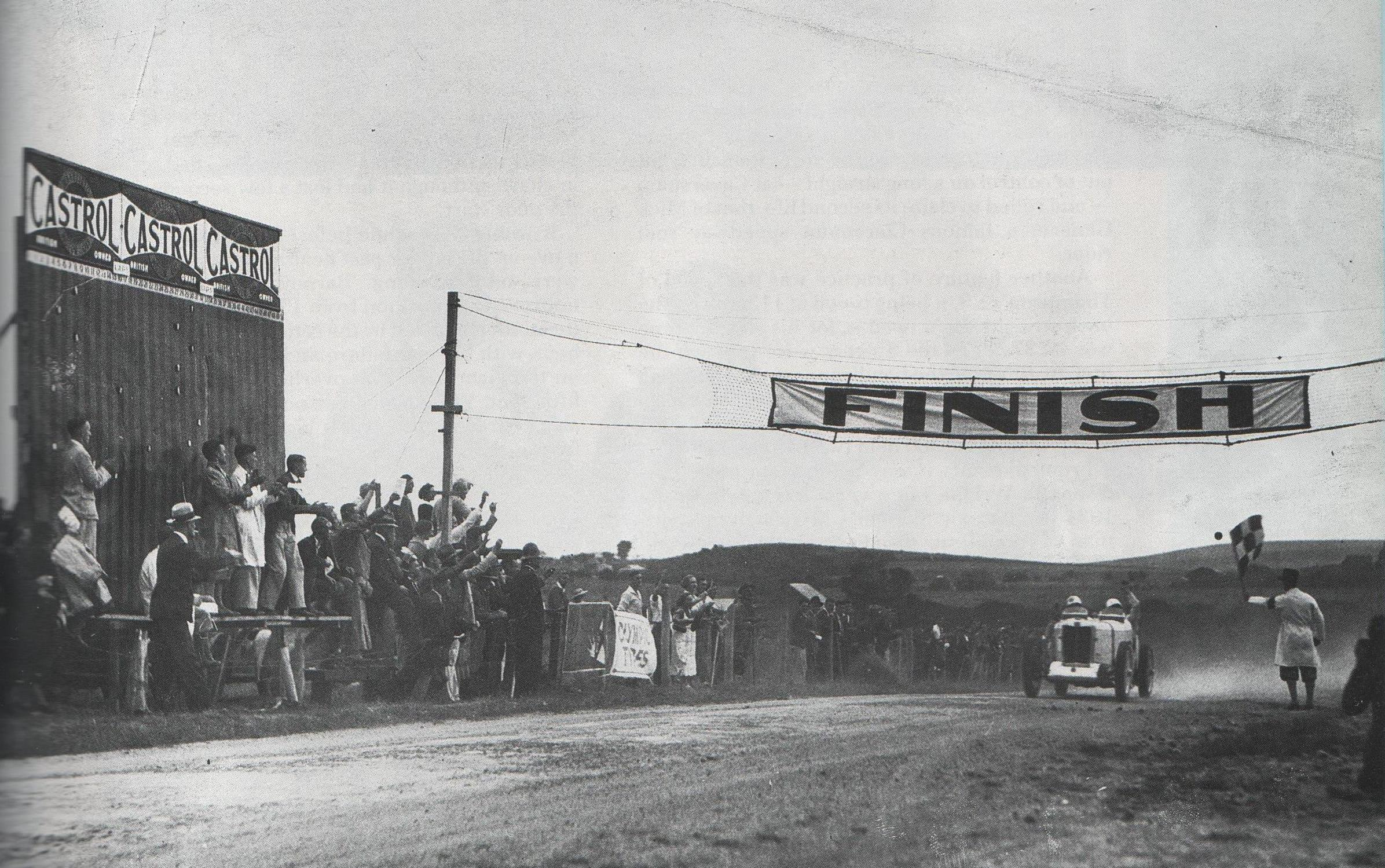 The MG P Type of Les Murphy at the Phillip Island Circuit on 1 April 1935. Murphy and riding mechanic M Jansen are shown taking the chequered flag to win the 1935 Australian Grand Prix.